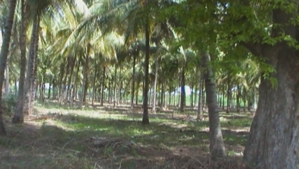 world famous Elangakurichy agricultural field